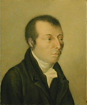 Pierre-Louis Panet (1761-1812), 1812, painted post-mortem by the subject's son-in-law, William Bent Berczy (1791-1873). Water-colour and touches of white gouache on vellum paper, 12,7 x 10,5 cm, Ève Beauregard-Malak collection. Photo Robert Derome.